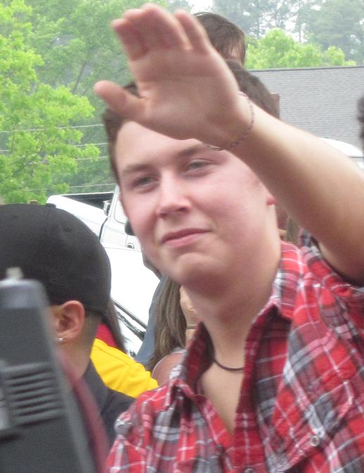 Scotty McCreery American Idol winner season 10, taken May 14, 2011 at Lake Benson Park in Garner, NC, cropped.